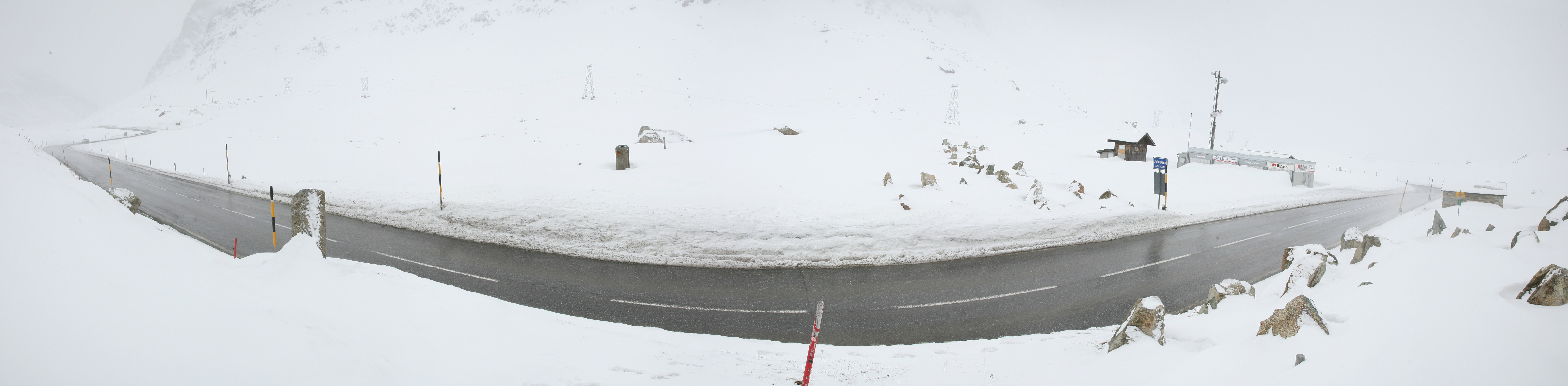 Julier Pass summit in late march during snowfall at 2284m above the mediterranean sealevel. The ancient roman column fragments, found during excavations, mark the summit.